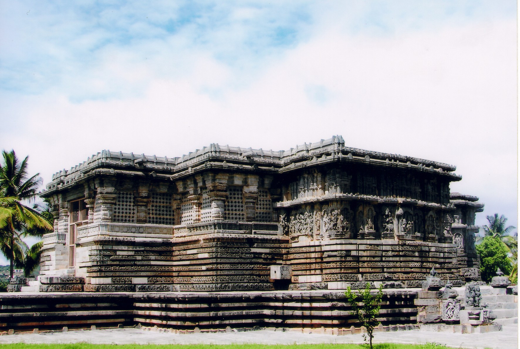 Photograph taken by self (Dinesh Kannambadi) at Kedareshvara temple in Halebidu (also spelt Kedareshwara or Kedaresvara) , Karnataka, India